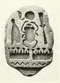 Picture of a scarab of Hedjkheperre Shoshenq I. Reign of Shoshenq I, 22nd dynasty, Third Intermediate Period.